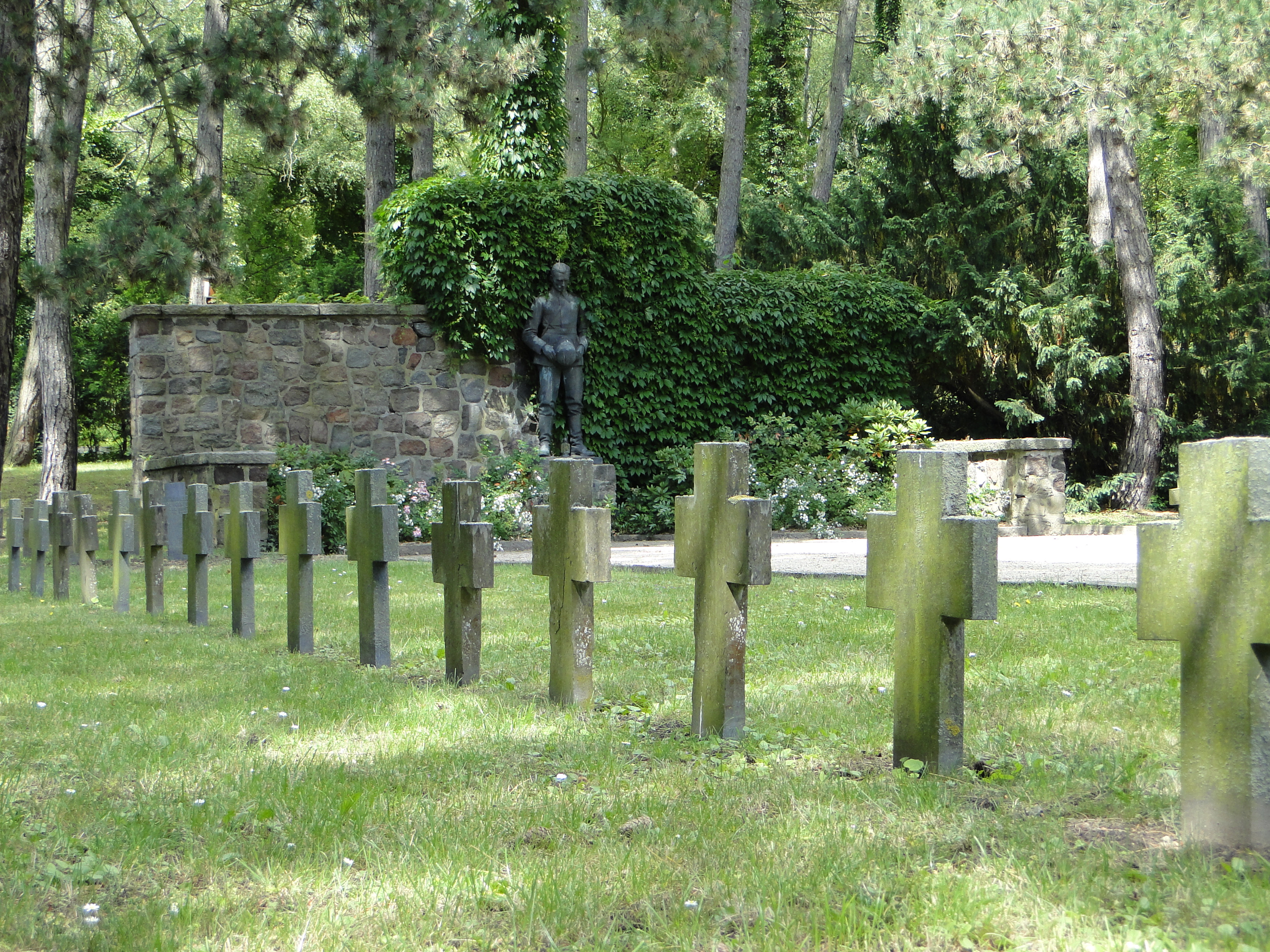 Old cemetery in Schwerin, Mecklenburg-Vorpommern, Germany